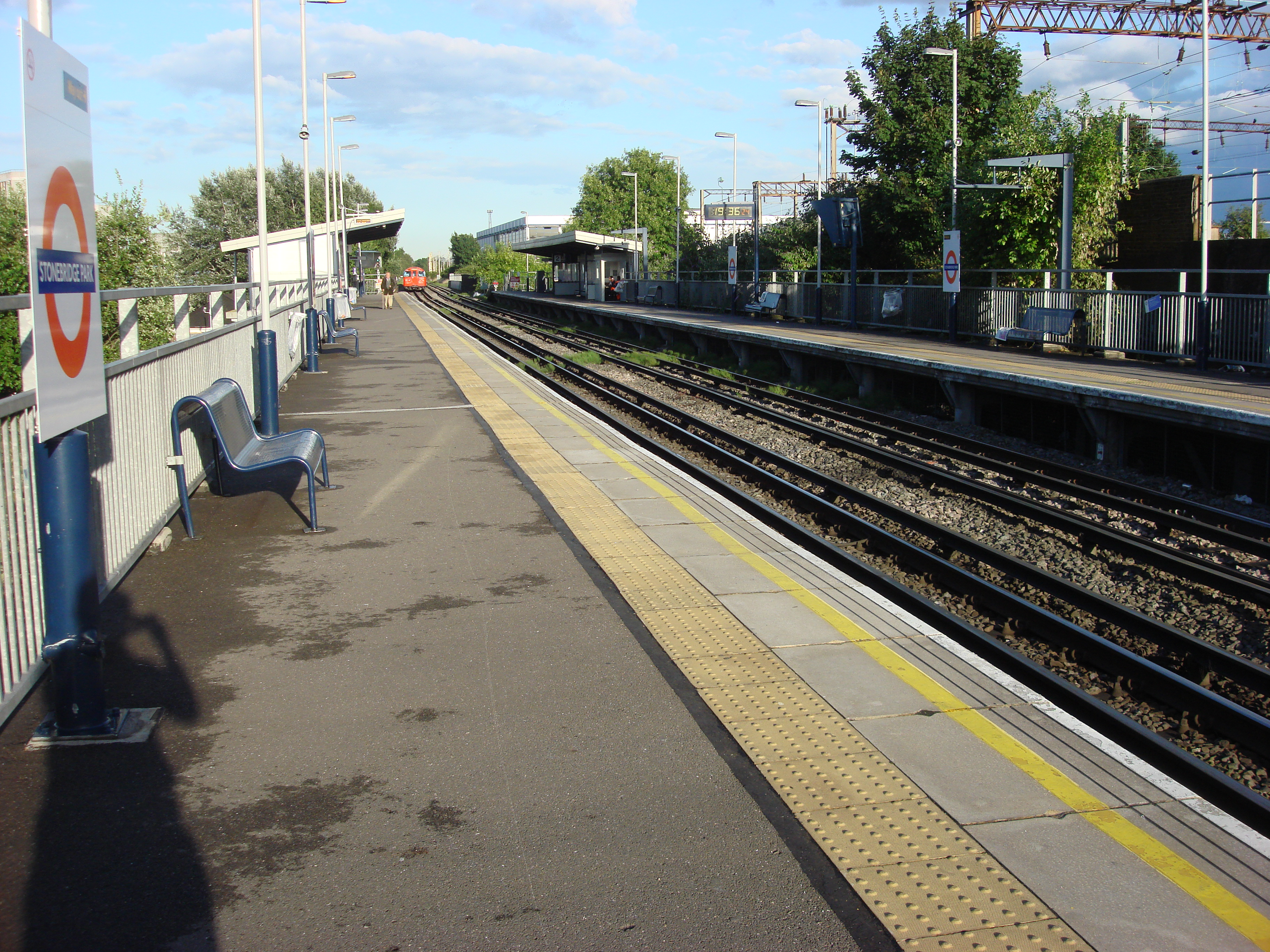 Stonebridge Park station, southbound platform